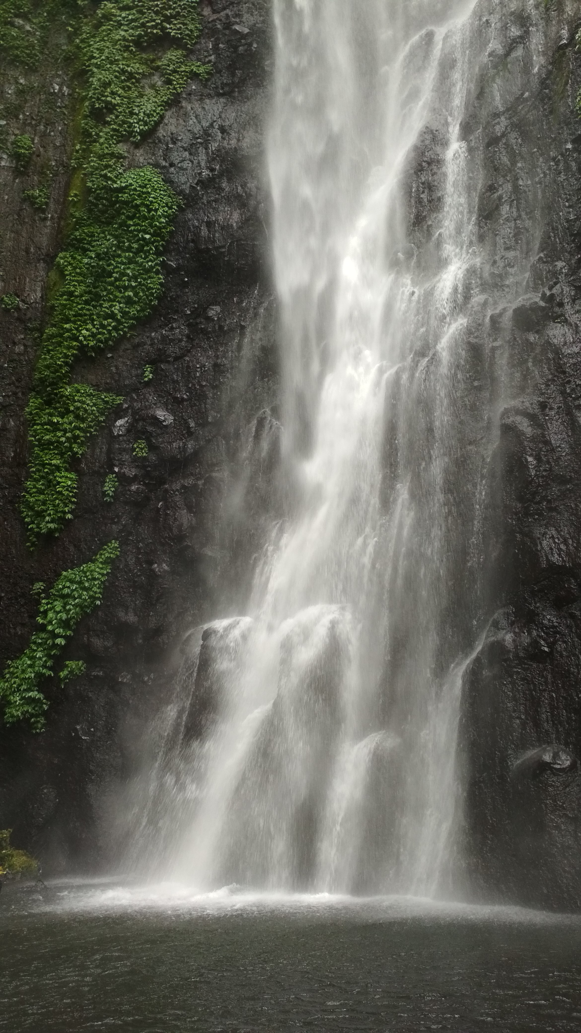 The beauty of Putuk Truno Waterfall which has a height around 45 meters is located at the hillside of Mount Welirang and Arjuno crosses in Tretes, Pasuruan Regency, East Java